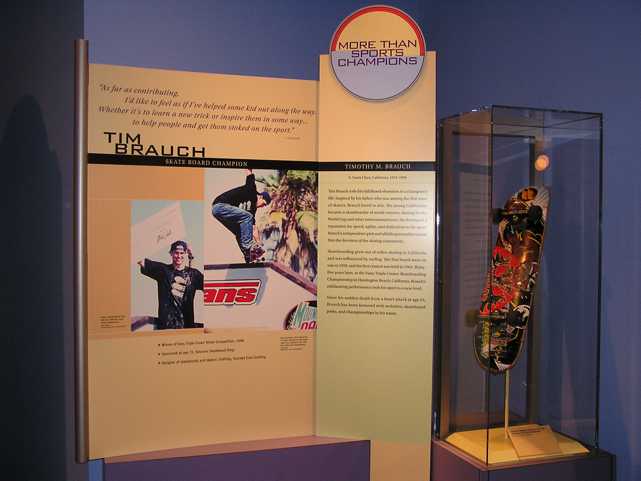 Tim Brauch Smithsonian Exhibit from Sports: Breaking Records, Breaking Barriers at the Smithsonian Museum of American History